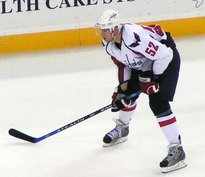 Mike Green plays with Capitals at New Jersey